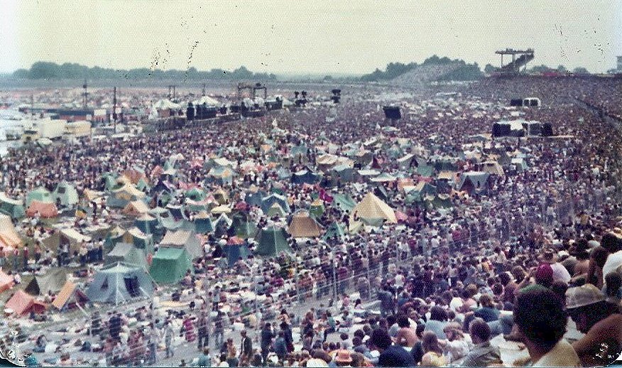 August Jam Rock Festival, Charlotte Motor Speedway, Charlotte, NC August 10, 1974